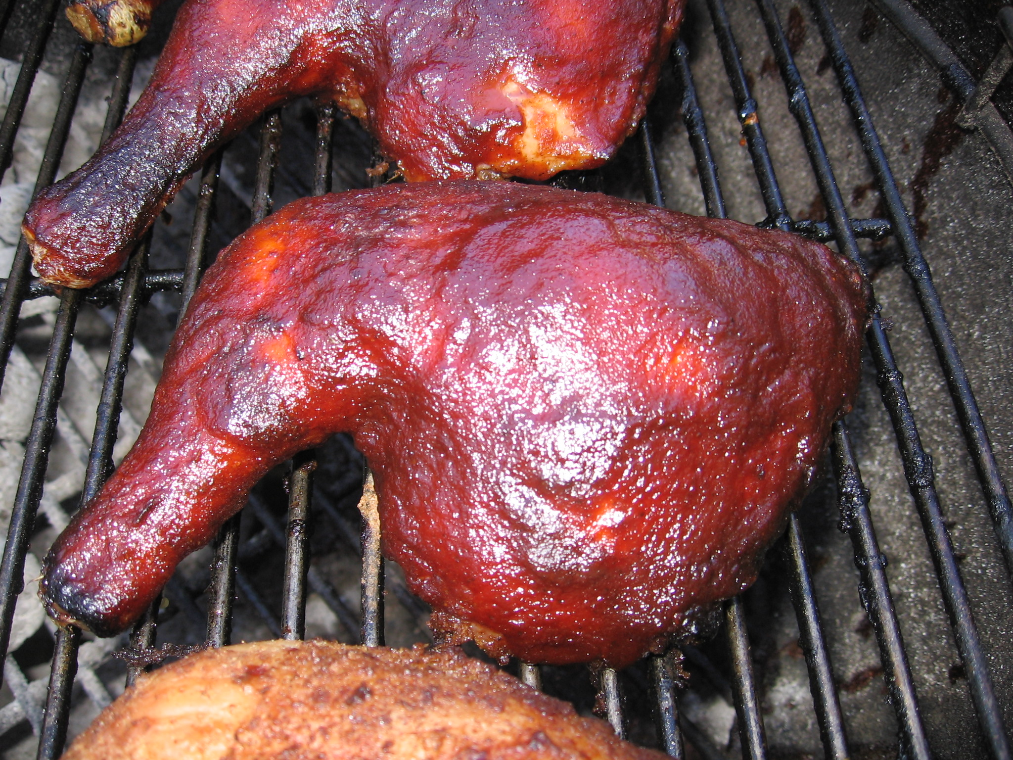 Chickendrum with glaze of barbecuesauce on Weber Kettle 22,5"